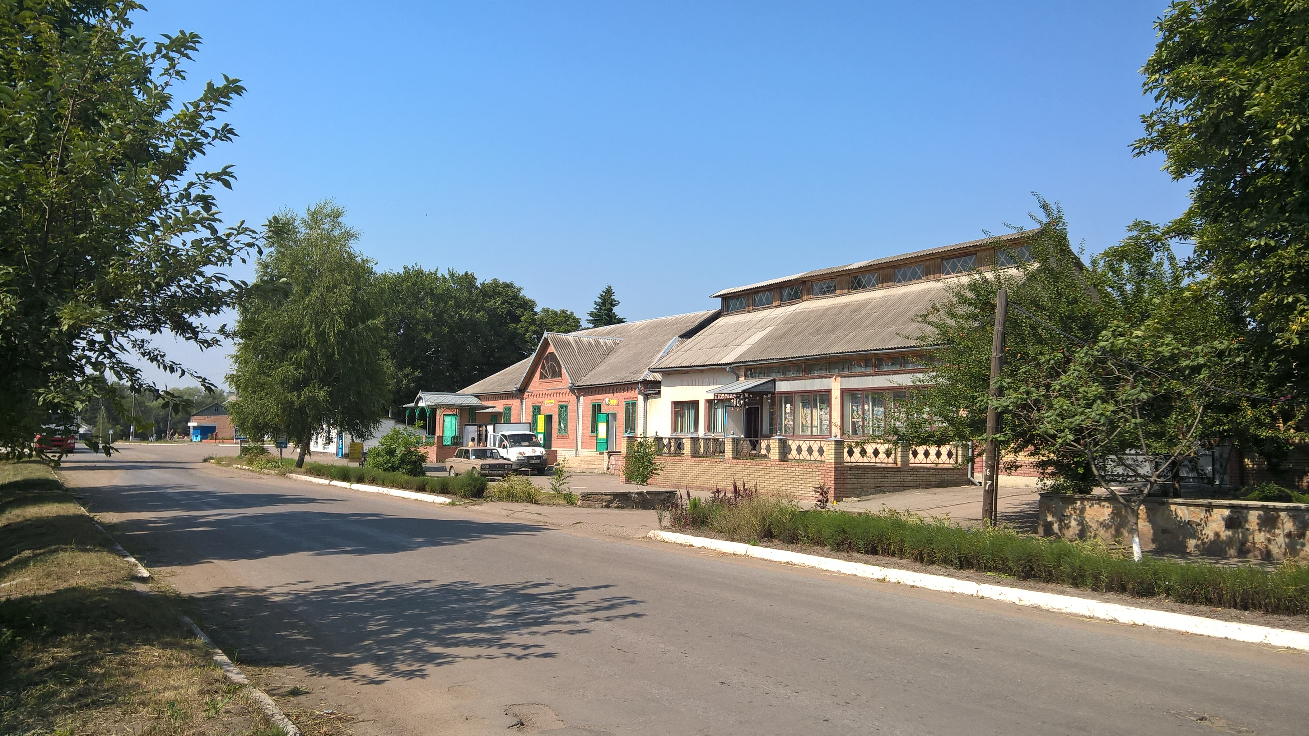 Central street in village Nyzhnia Duvanka, Svatove district, Luhansk region, Ukraine.